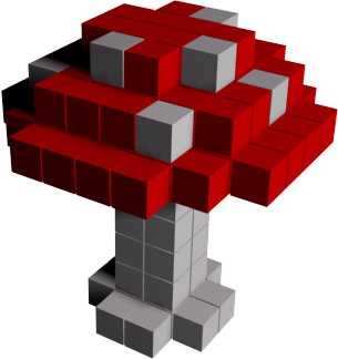 Voxel amanita mushroom